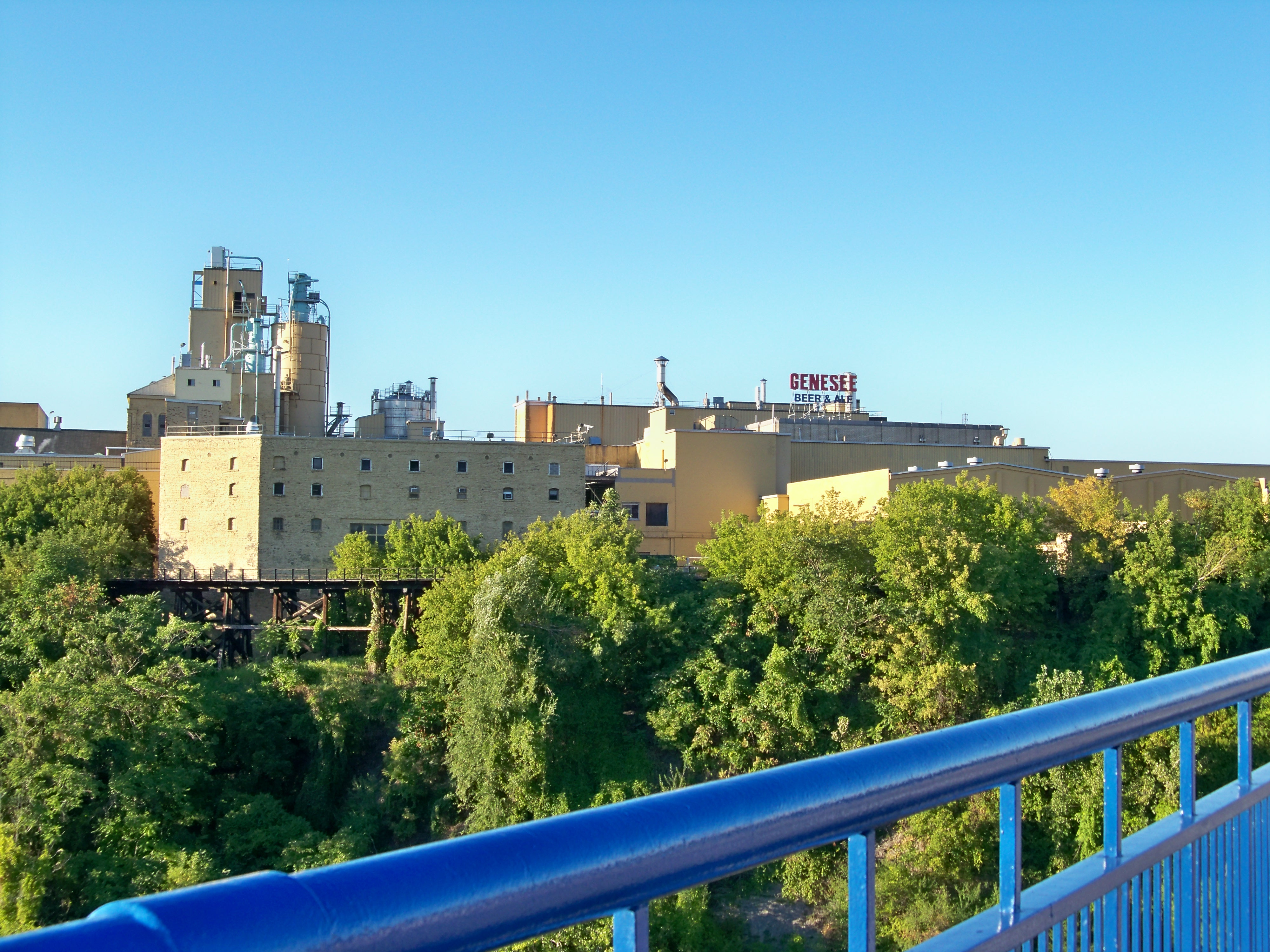 Genesee Brewery ontop of a Bluff along the Genesee River in Rochester.